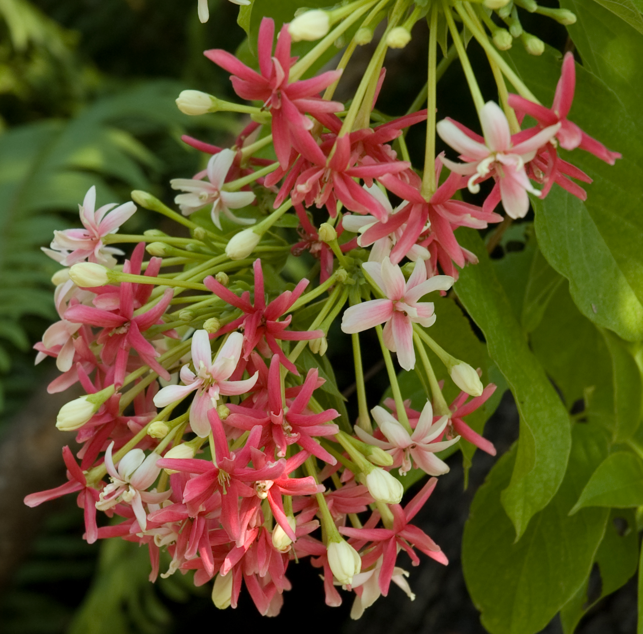 Flowers at the Grand palace in downtown Bangkok, Thailand